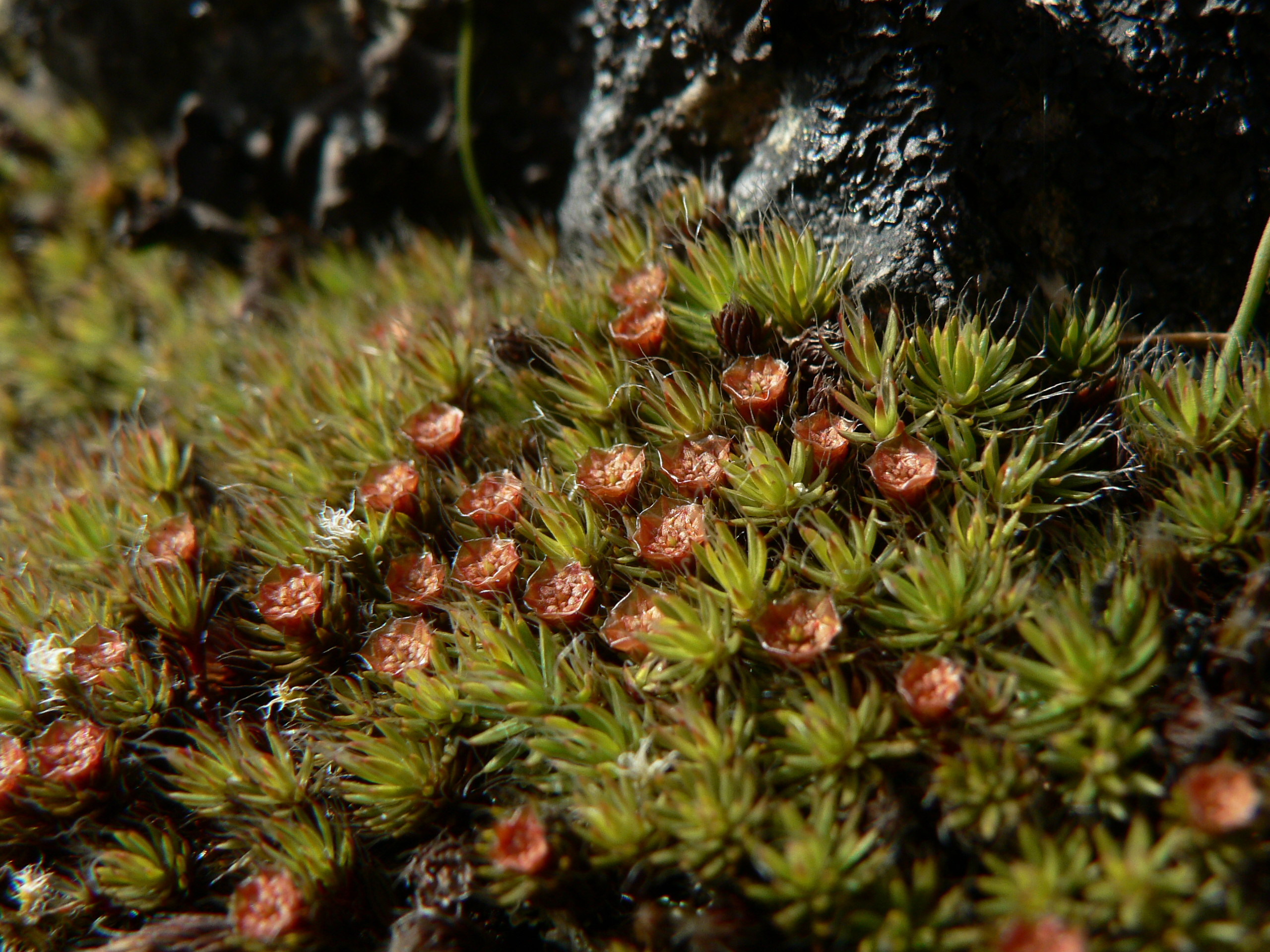 Polytrichum Moss